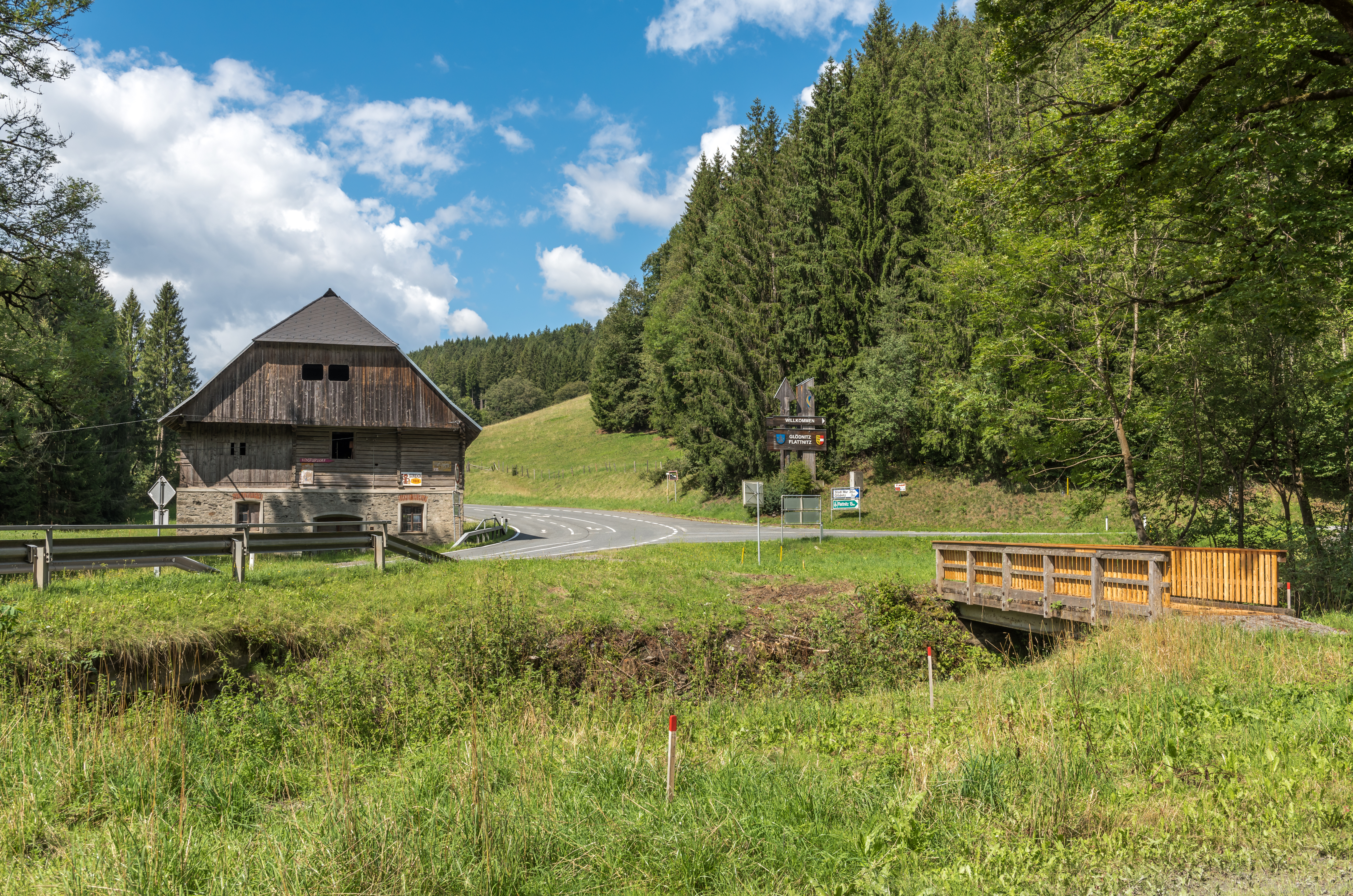 Barn in Kleinglödnitz, municipality Glödnitz, district Sankt Veit, Carinthia, Austria, EU